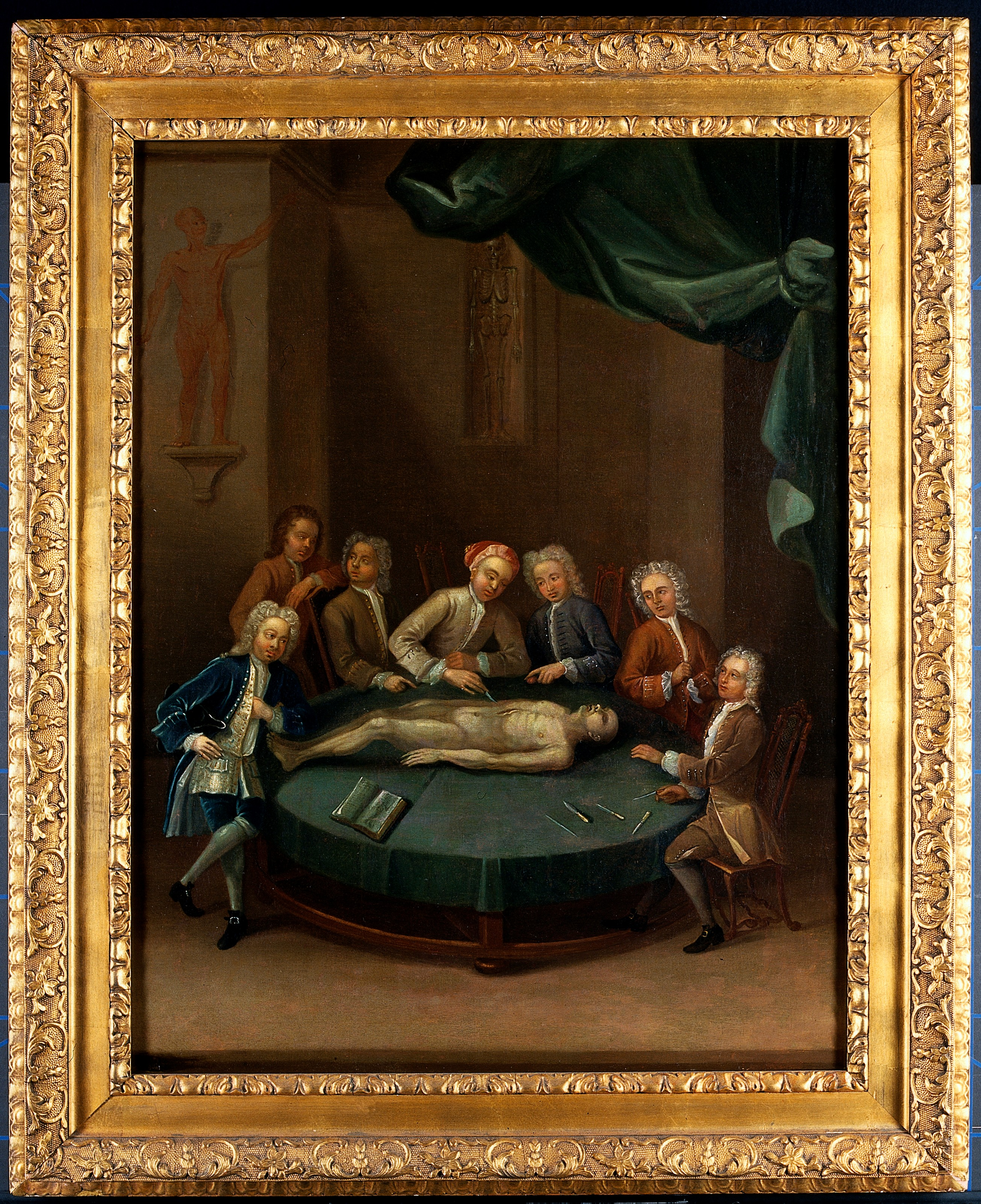 William Cheselden giving an anatomical demonstration to six spectators in the anatomy-theatre of the Barber-Surgeons' Company, London, ca. 1730/1740. Oil painting attributed to Charles Phillips. Iconographic Collections Keywords: William Cheselden